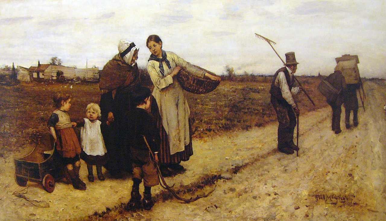 Painting from Robert McGregor